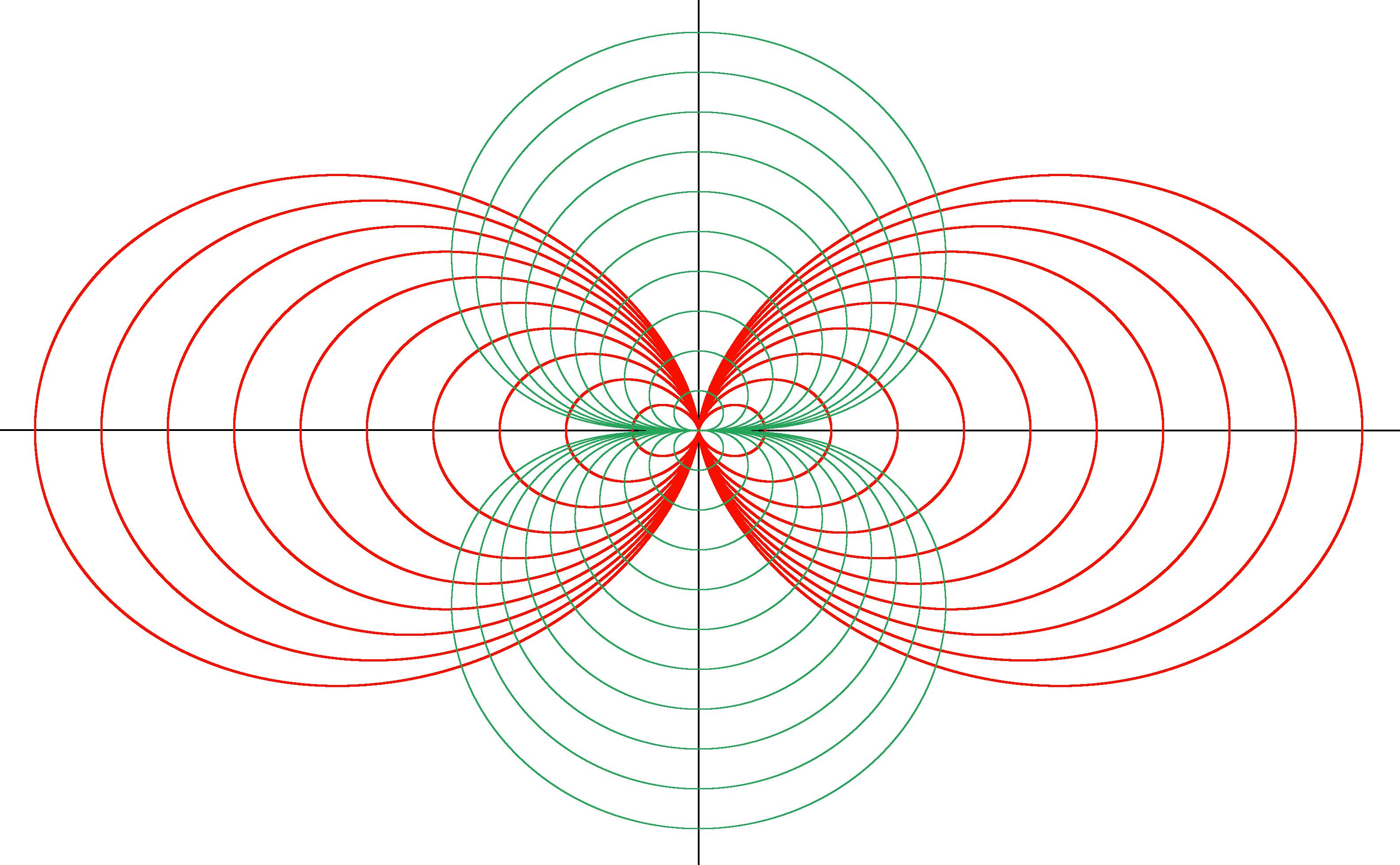 Streamlines and equipotential lines of a magnetic or electric point dipole. Computer constructed. Colour curves